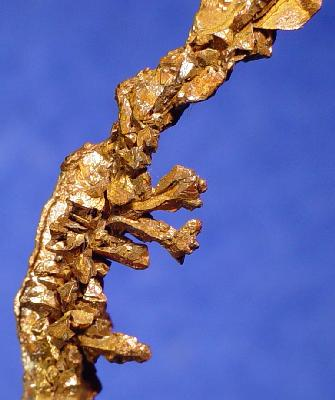 Copper Locality: Mufulira Mine, Copperbelt Province, Zambia (Locality at ) Size: small cabinet, 6.7 x 1.4 x .8 cm Copper (Spinel twin) An excellent well-defined single spinel twin crystal of Copper that is an amazing 6.7 cm long. The modified Copper cubes growing the length of the specimen are attractive and sharp, and the copper has an excellent patina. Spinel twin Coppers this long are few and far between from African locales. This old copper specimen is from the Stan Korowski collection who originally brought out many of the famous Zambian minerals and wrote about them extensively in the Min. Rec. and other journals years ago. Ex. Martin Lewadny Collection.